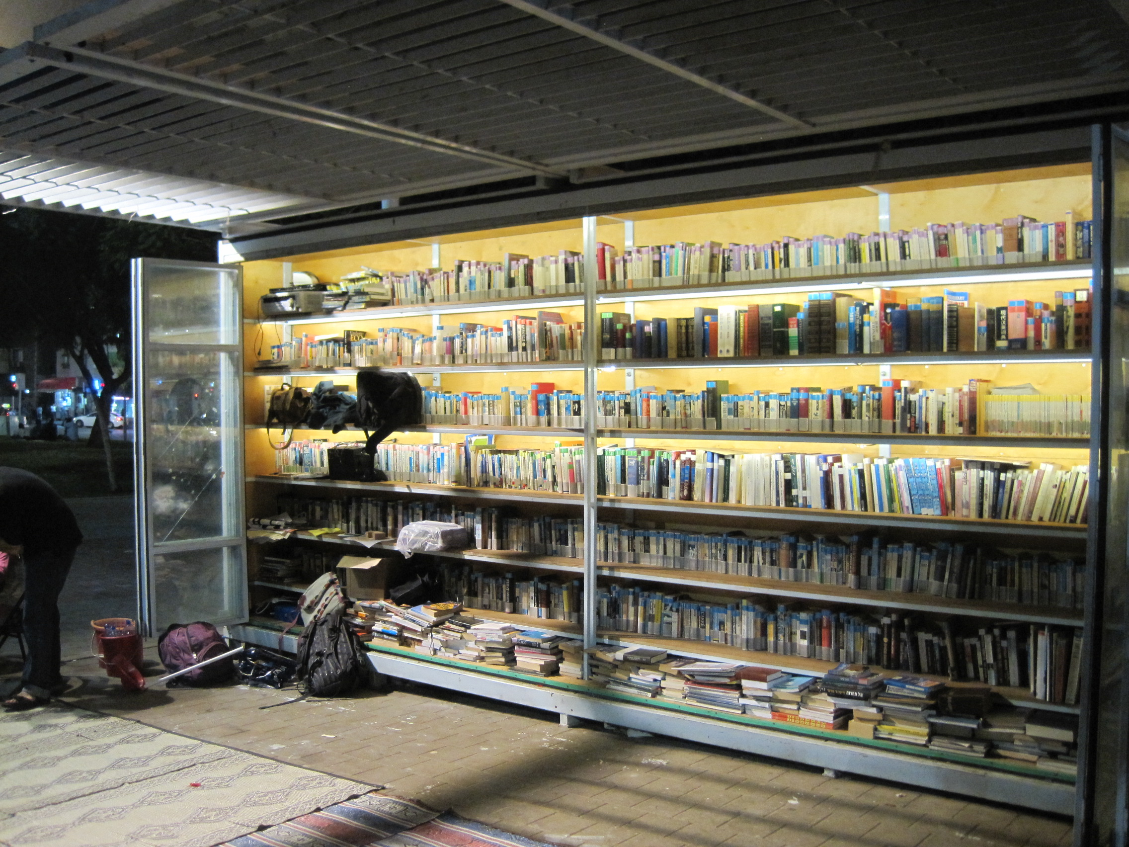 Levinski Garden Library